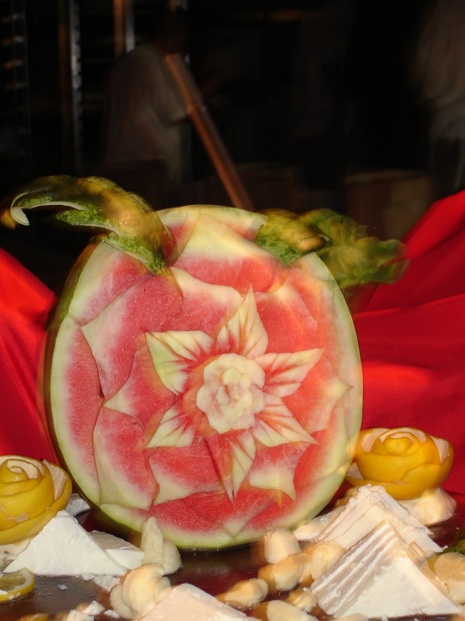 Rose carved on a watermelon